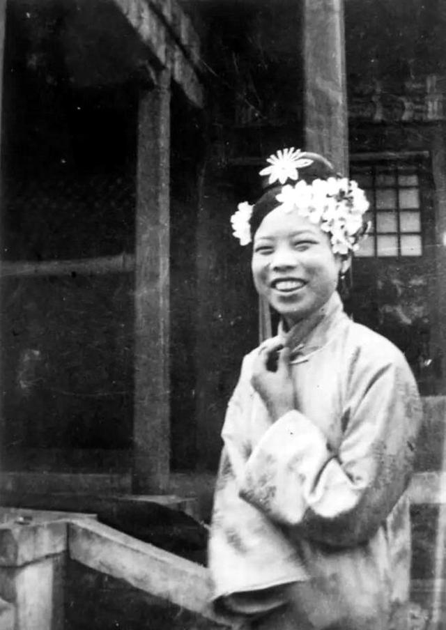 Wenxiu, the concubine of Emperor Puyi.